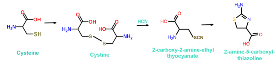 Thiazoline synthesis